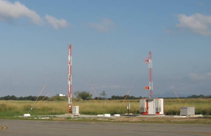 Transponder Landing System at Base Area Santa Cruz, Rio de Janeiro Brazil, 2009.